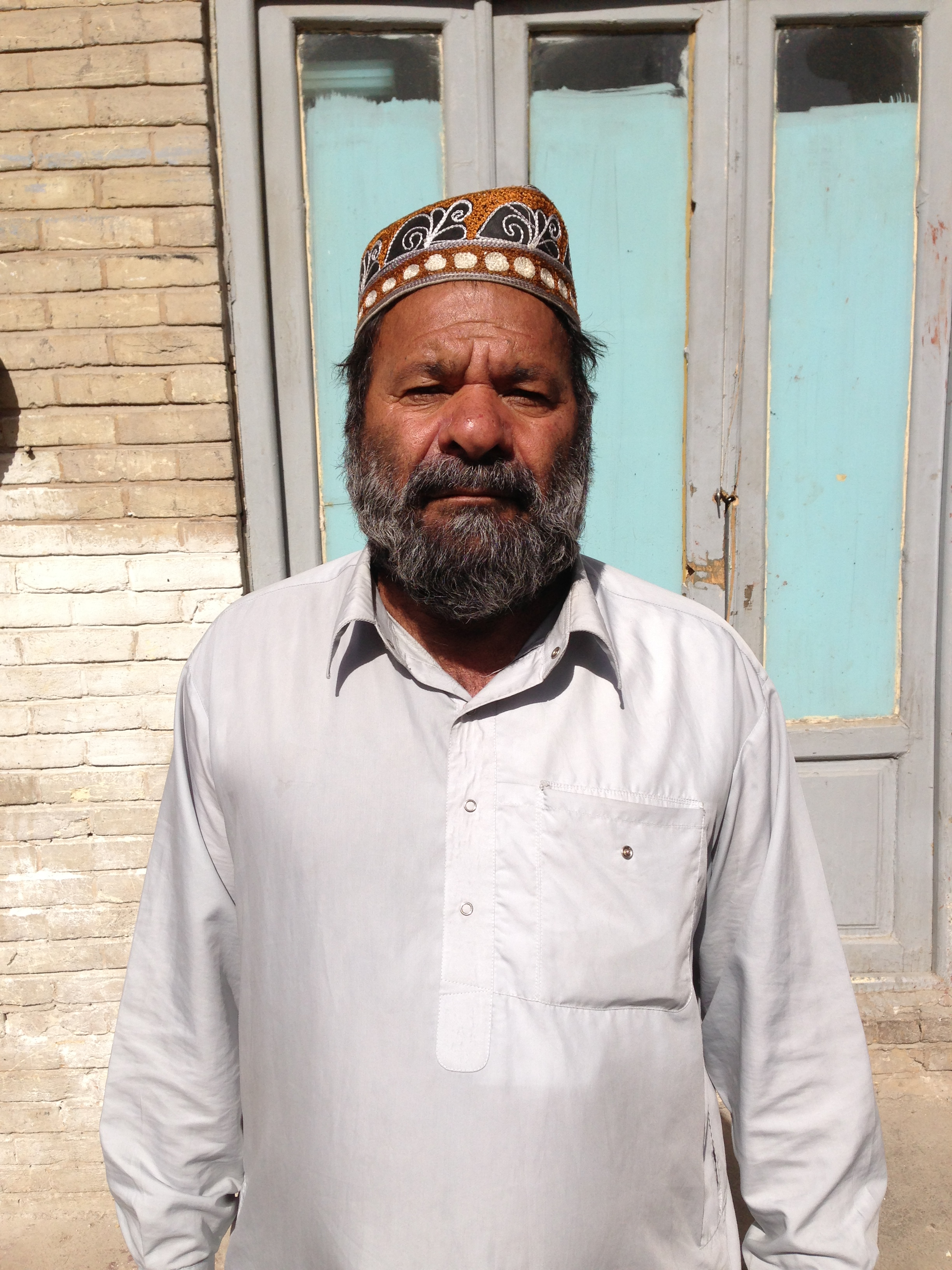 Here is a photo of balouch man who live in Iran in 2013 in traditional hat and clothes.